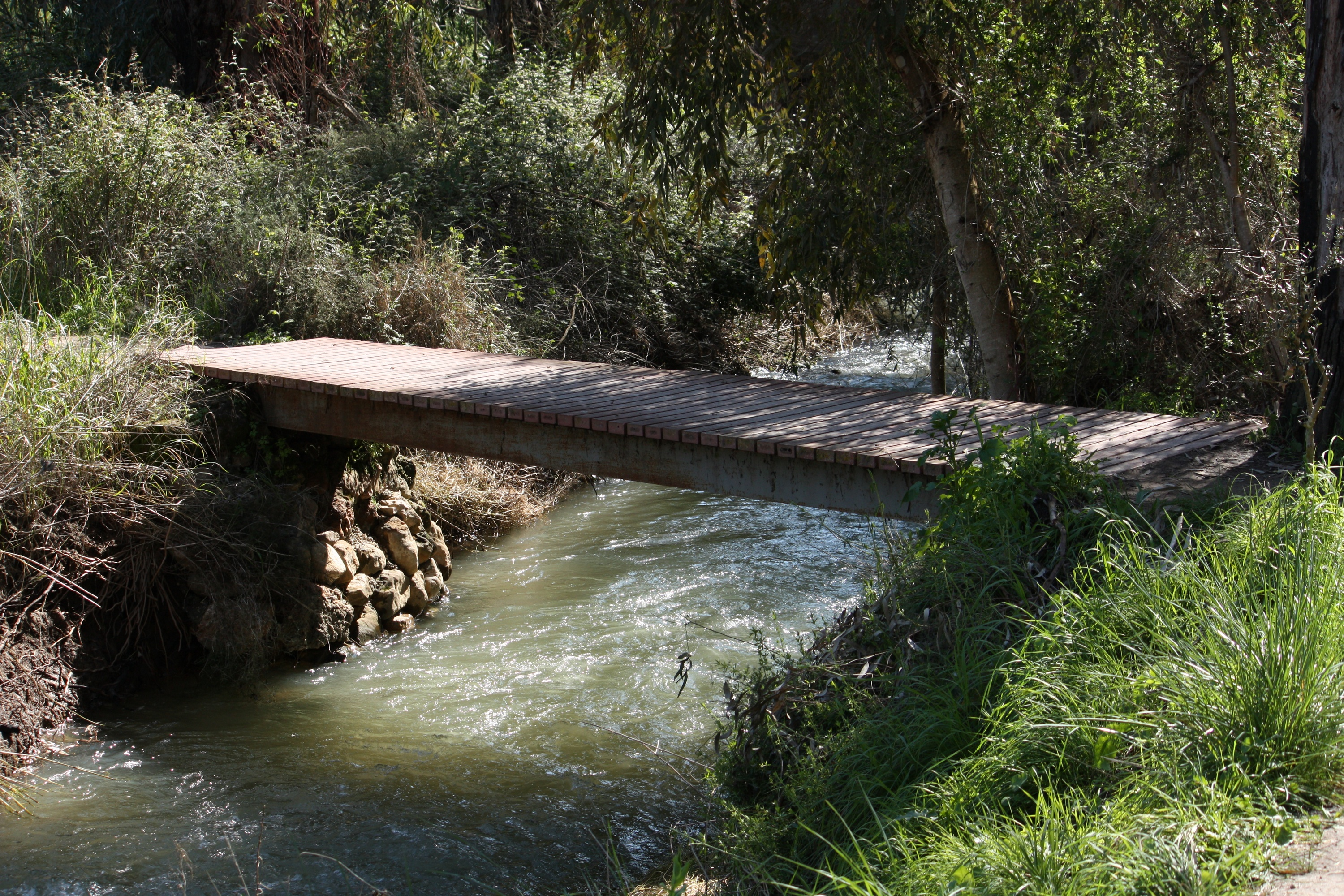 Nahal Ayun in northen Israel